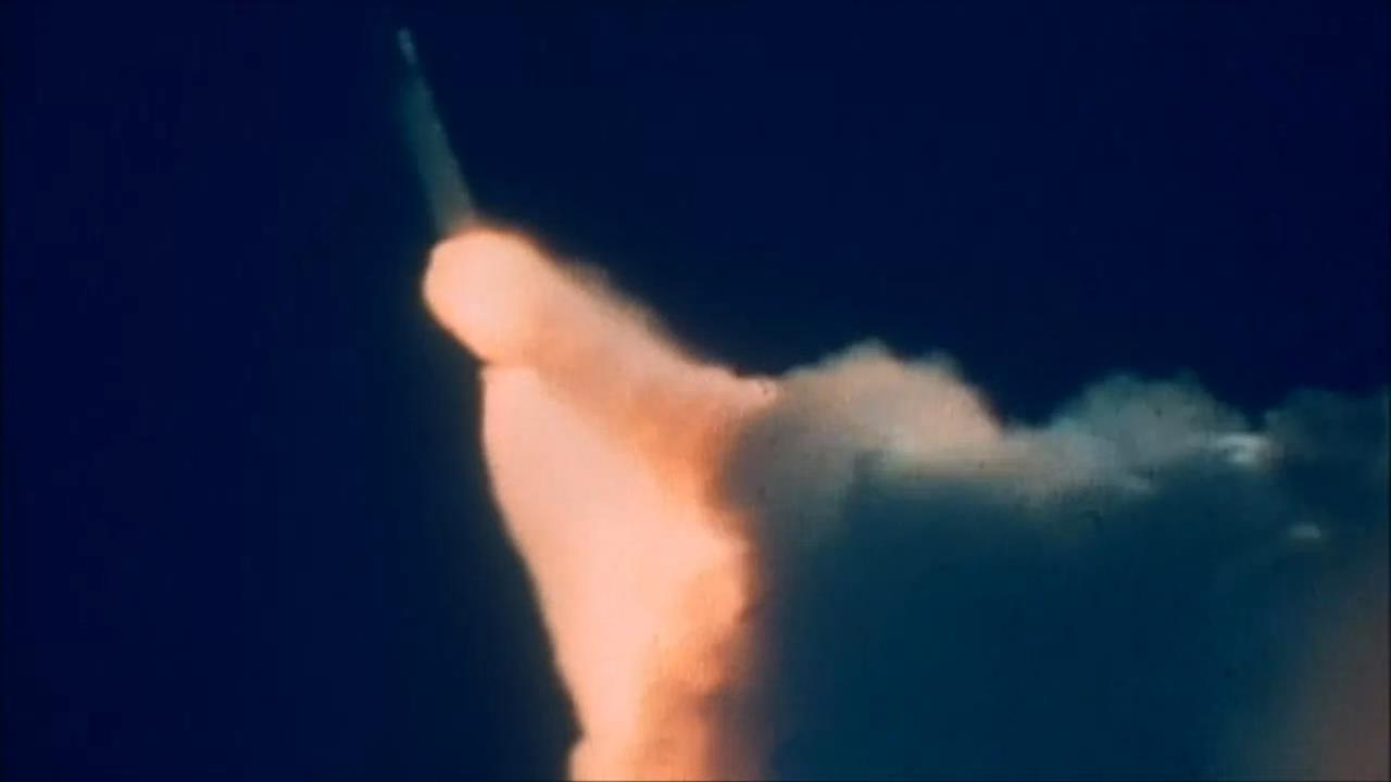 Challenger's right SRB exits the vapor cloud roughly 75.8 seconds after launch. The anomalous plume that caused the disaster is clearly visible.